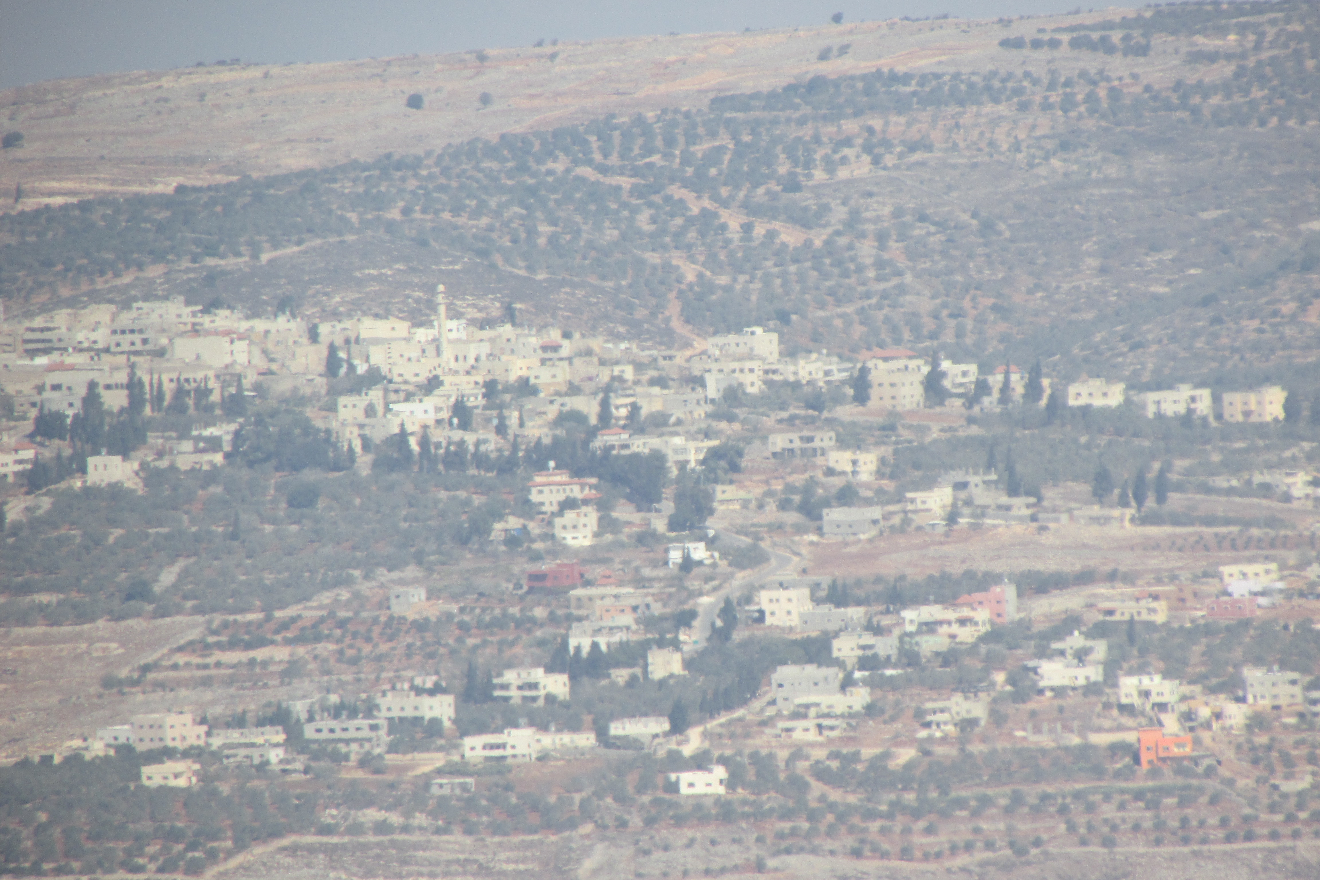 Yasid from Mount Ebal.